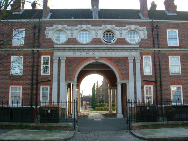 Cleverley Estate - Stephenton Road, W12 Part of a small estate in the area.